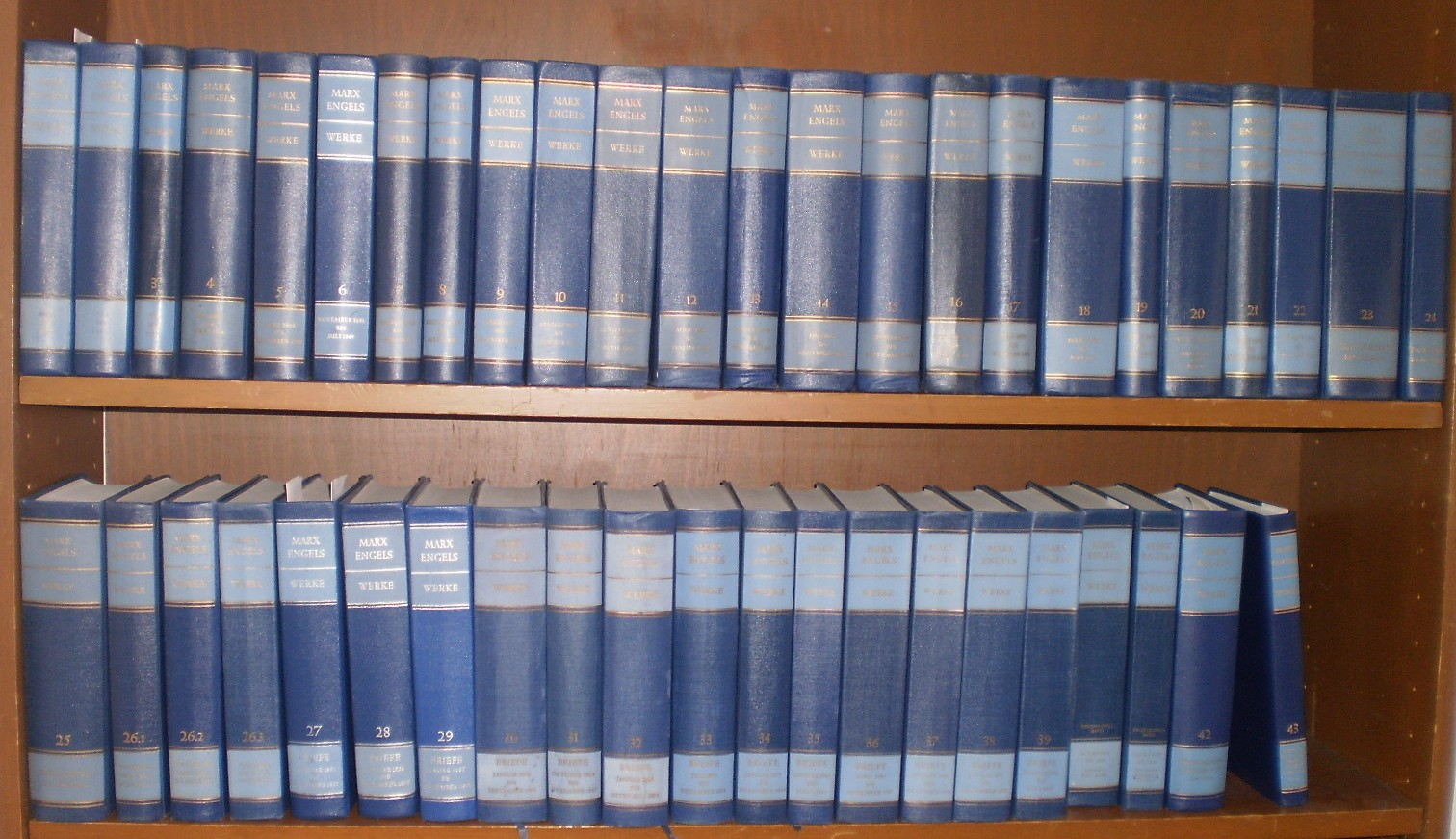 Marx-Engels-Werke